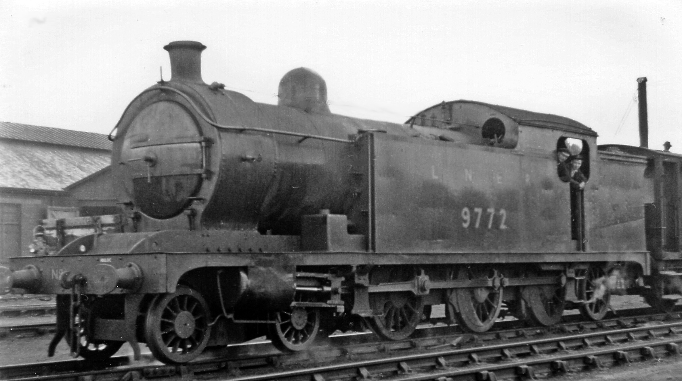 Ex-North Eastern 4-6-2T at Hull Dairycoates Locomotive Depot. One of several employed on shunting and trip work in the extensive marshalling yards in the district, Raven A7 No. 9772 is in use even on a Sunday - and its crew enjoy being photographed. Dairycoates was a large Depot, with an allocation in 1947 of 123 locomotives, comprising:- 2 4-6-0, 8 4-4-2, 13 2-6-0, 10 2-8-0, 12 0-8-0, 21 0-6-0, 4 4-8-0T, 13 4-6-2T, 2 2-4-2T, 24 0-6-2T, 10 0-6-0T, 3 0-4-0T; of these all except the 2-6-0's and some of the 2-8-0's were rather elderly ex-NER engines.